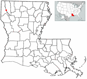 Location of Shreveport, Lousiana